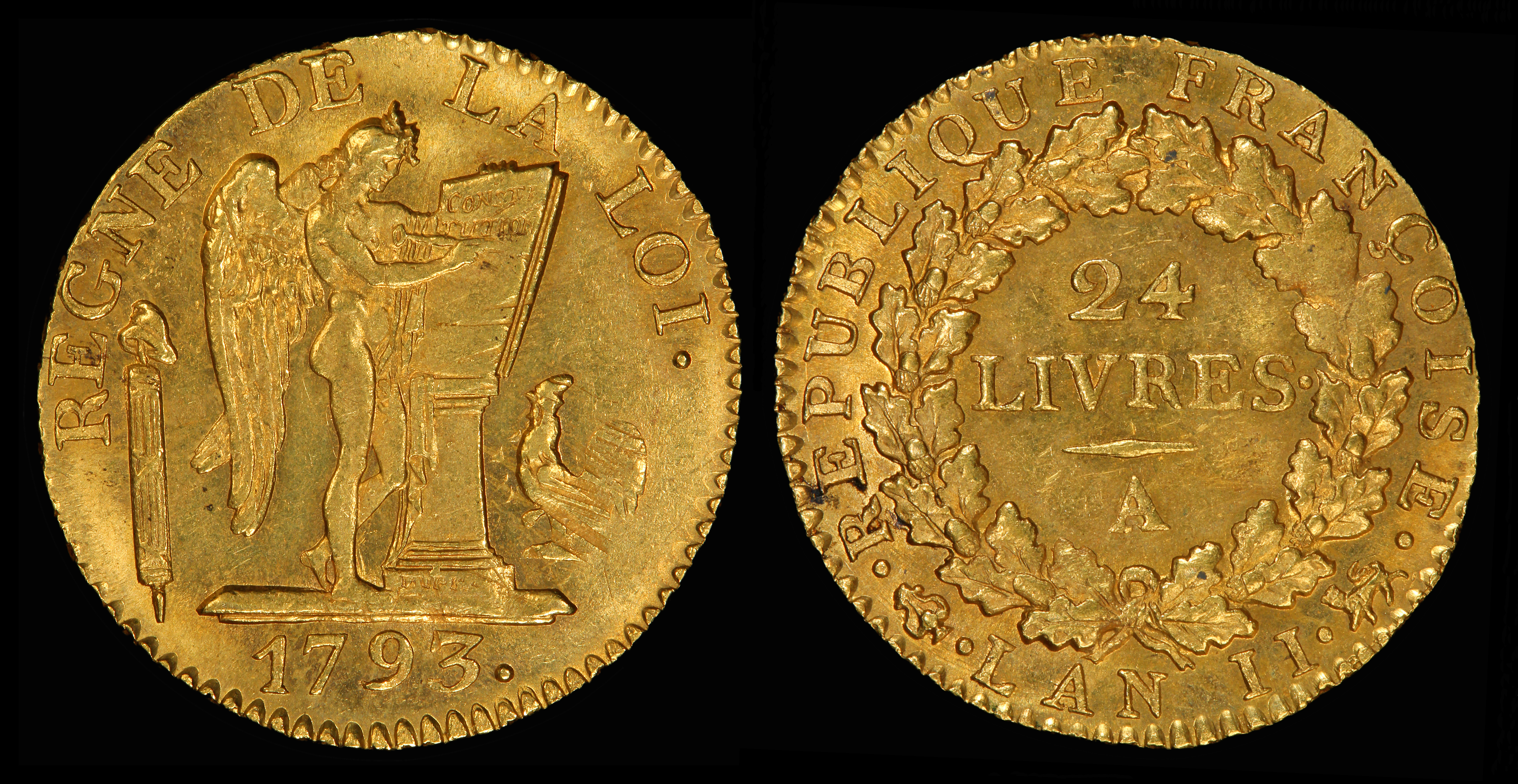 French First Republic (Lille Mint), 24 livres, gold (1793). "Winged genius" designed by Augustin Dupré is on the obverse.